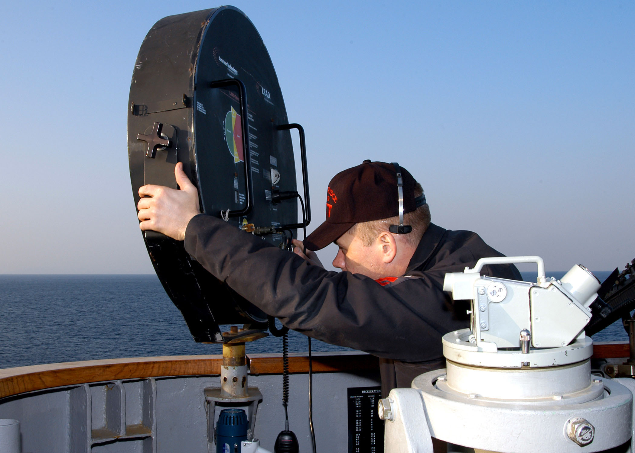 Sagami-Wan, Japan (Jan. 27, 2006) - Ship's Serviceman 1st Class Scott D. Amberger aims a Long Range Acoustic Device (LRAD) at an incoming small craft off the starboard bridge wing of amphibious command ship USS Blue Ridge (LCC 19) during a small boat attack drill. Blue Ridge and the embarked 7th Fleet staff recently deployed to conduct routine port visits and community relations projects throughout the 7th Fleet area of operation. U.S. Navy photo by Photographer's Mate 3rd Class Tucker M. Yates (RELEASED)